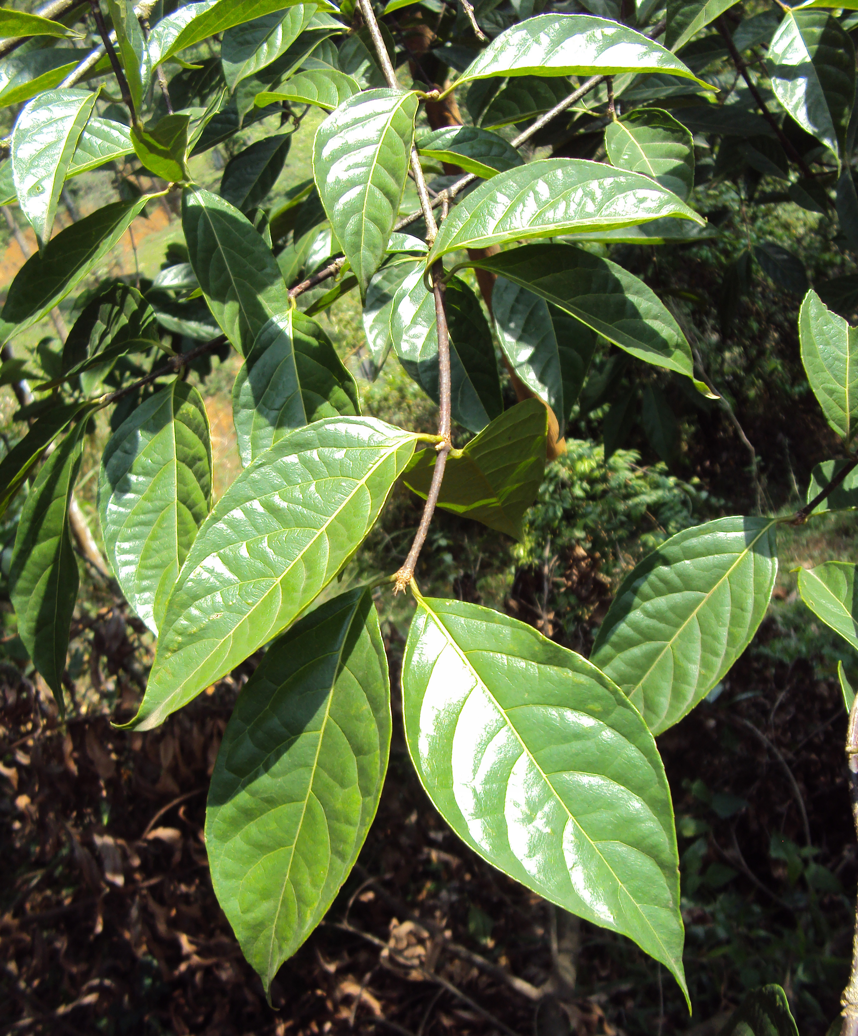 Blepharistemma serratum